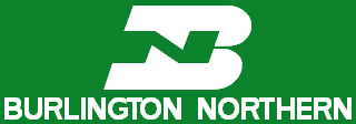 Burlington Northern Logo